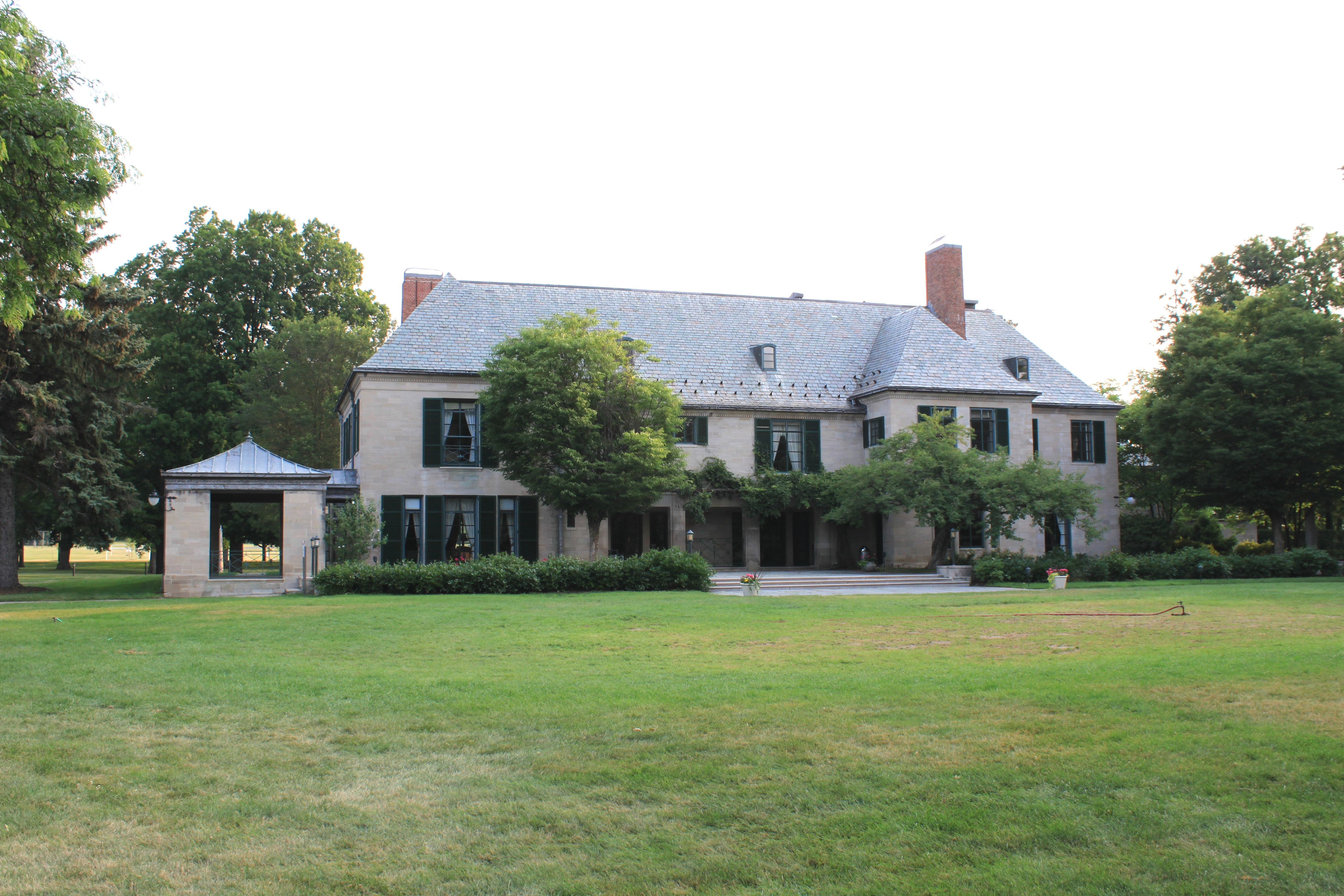 Earhart Manor, Concordia University campus, 4090 Geddes Road, Ann Arbor, Michigan. The building is on the list of Michigan State Historic Sites.